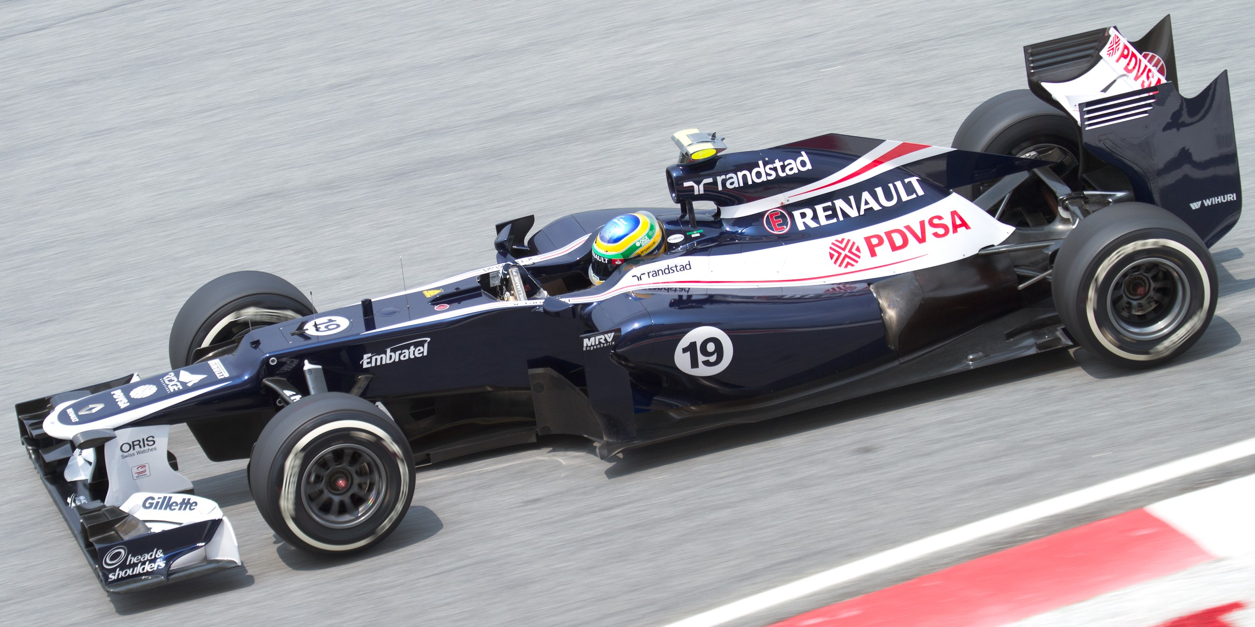 Formula One 2012 Rd.2 Malaysian GP: Bruno Senna (Williams) during the second practice session on Friday.